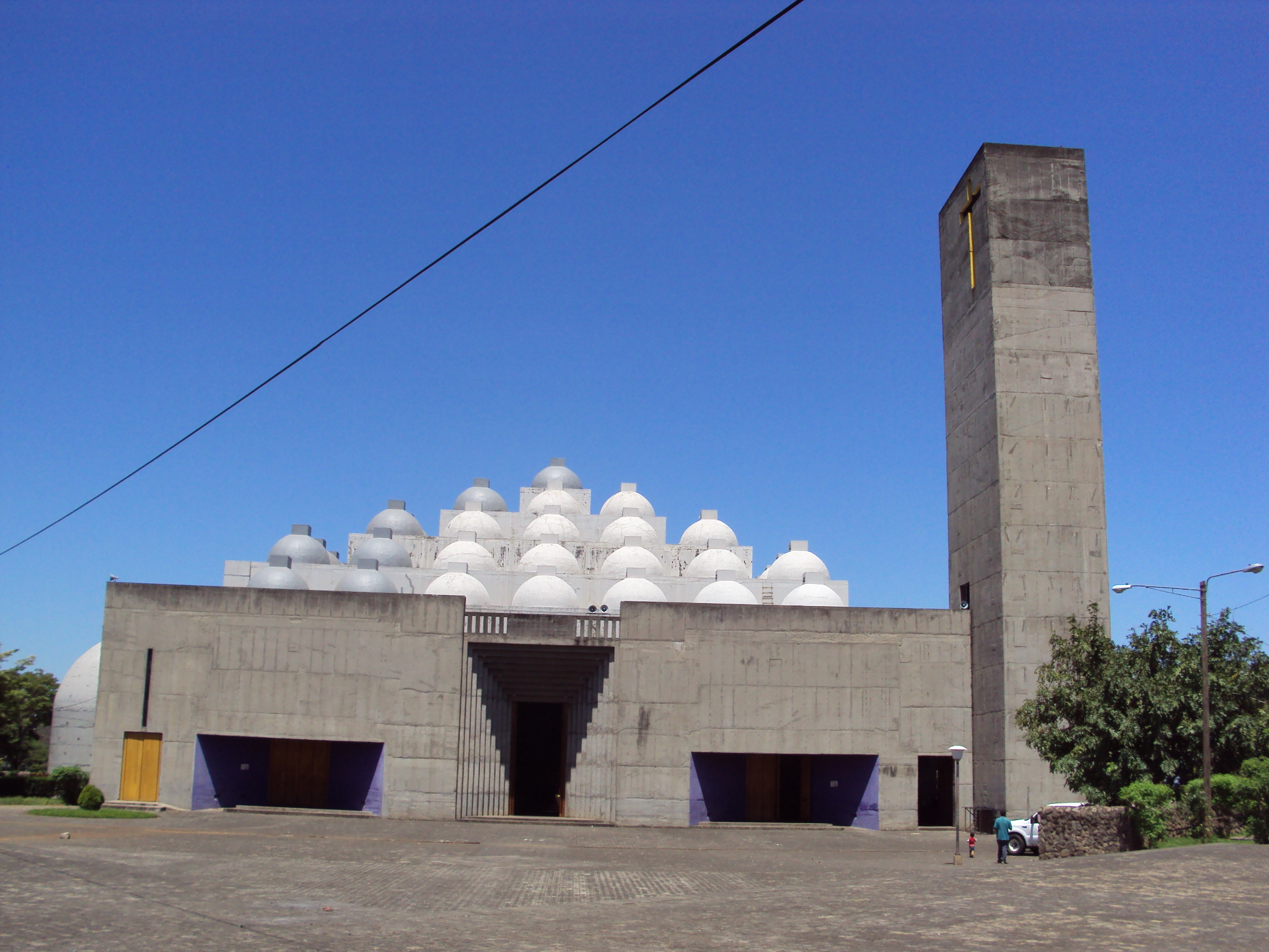 CATEDRAL DE LA INMACULADA CONCEPCION, MANAGUA